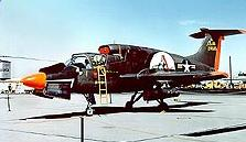 Ryan XV-5A VTOL experimental airplane. Edwards AFB